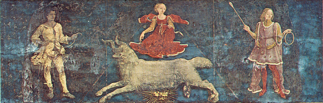 various Ferrarese artist Allegory of March Fresco Palazzo Schifanoia, Ferrara